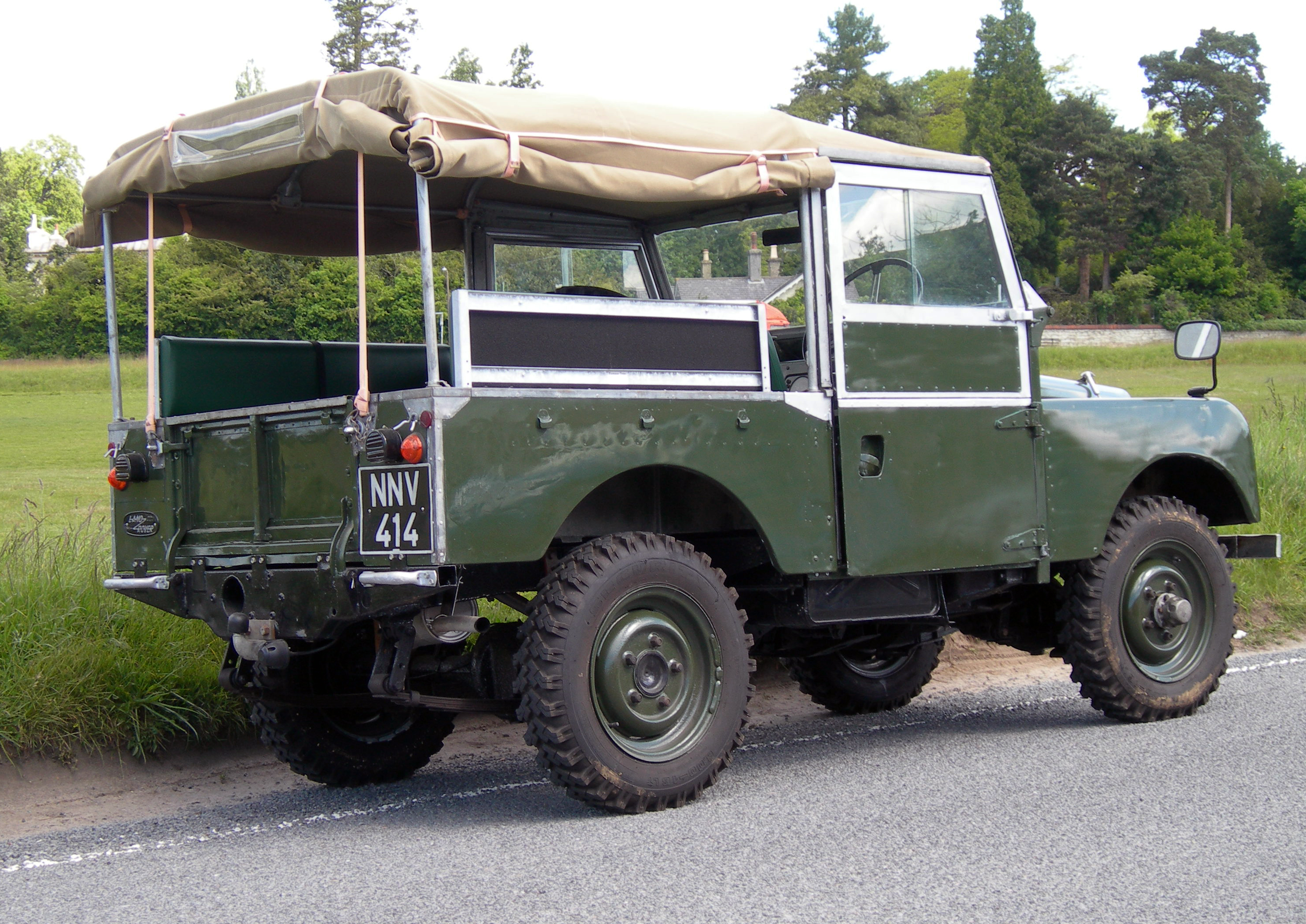 Land Rover Series I at Reigate Heath